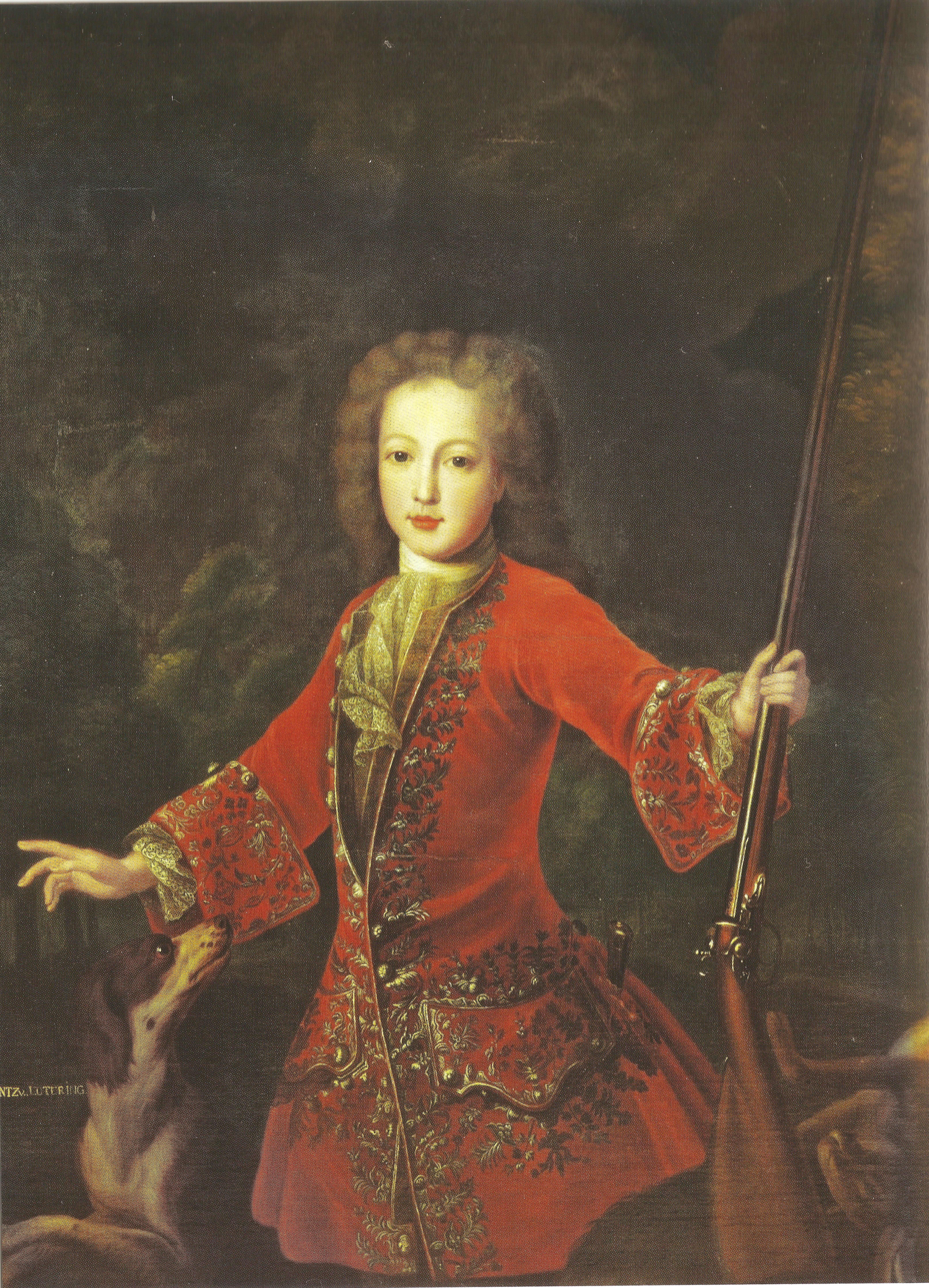 The future Emperor Francis I Stephen, here a Prince of Lorraine in his hunting attire.